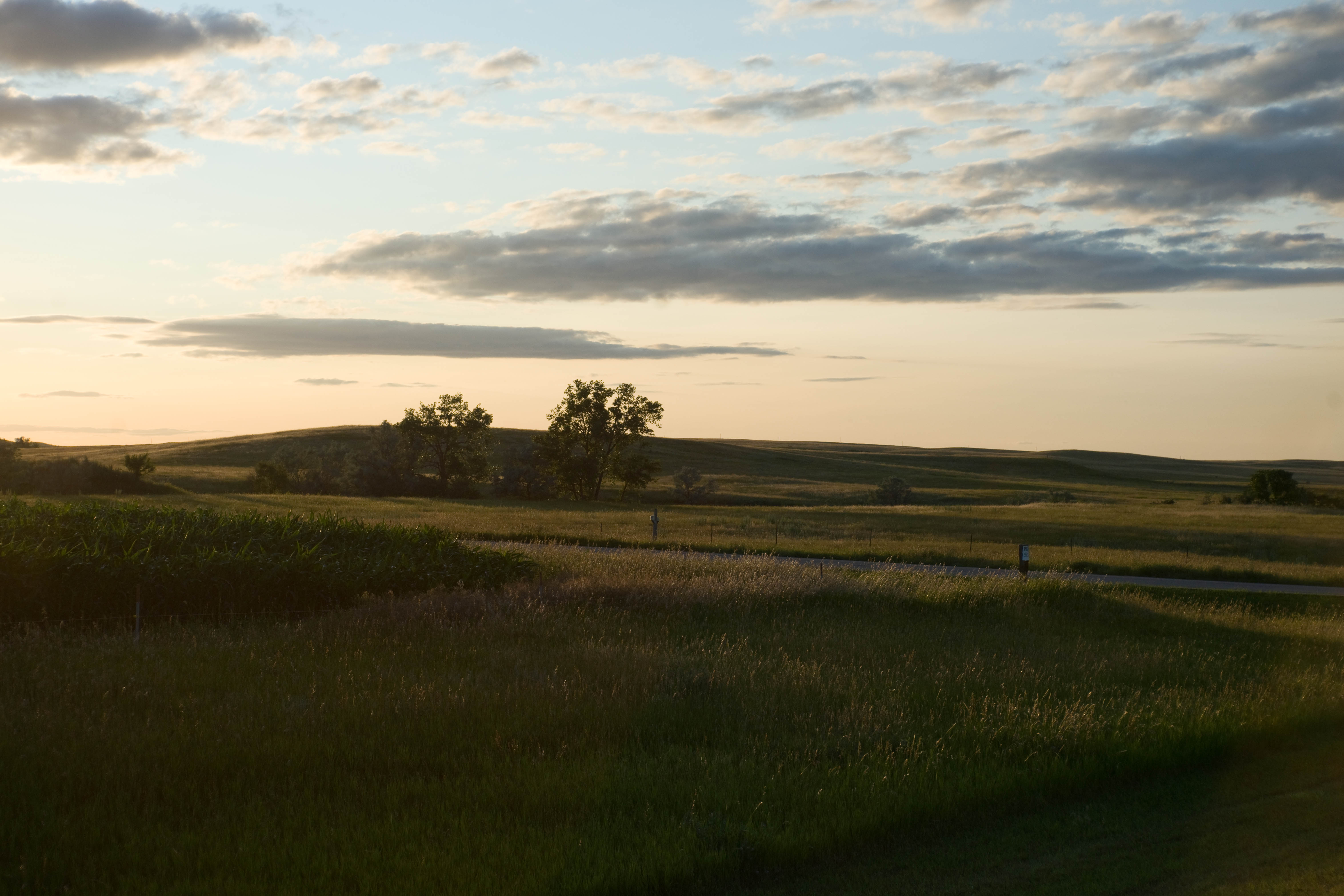 From